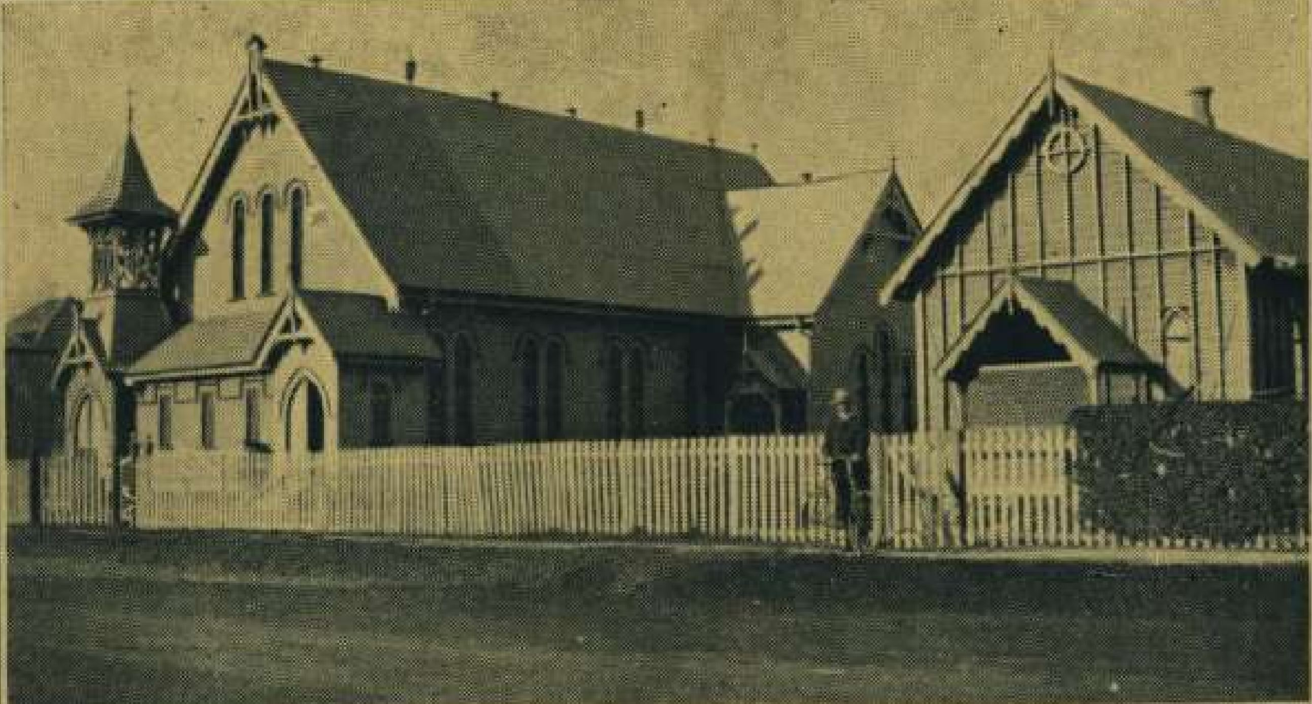 New and old church buildings of St Paul's Presbyterian Church, Mackay, circa 1922. The publication date of the book is 1922 but the photo could have been taken at any time between 1896 when the new church was constructed and 1922.